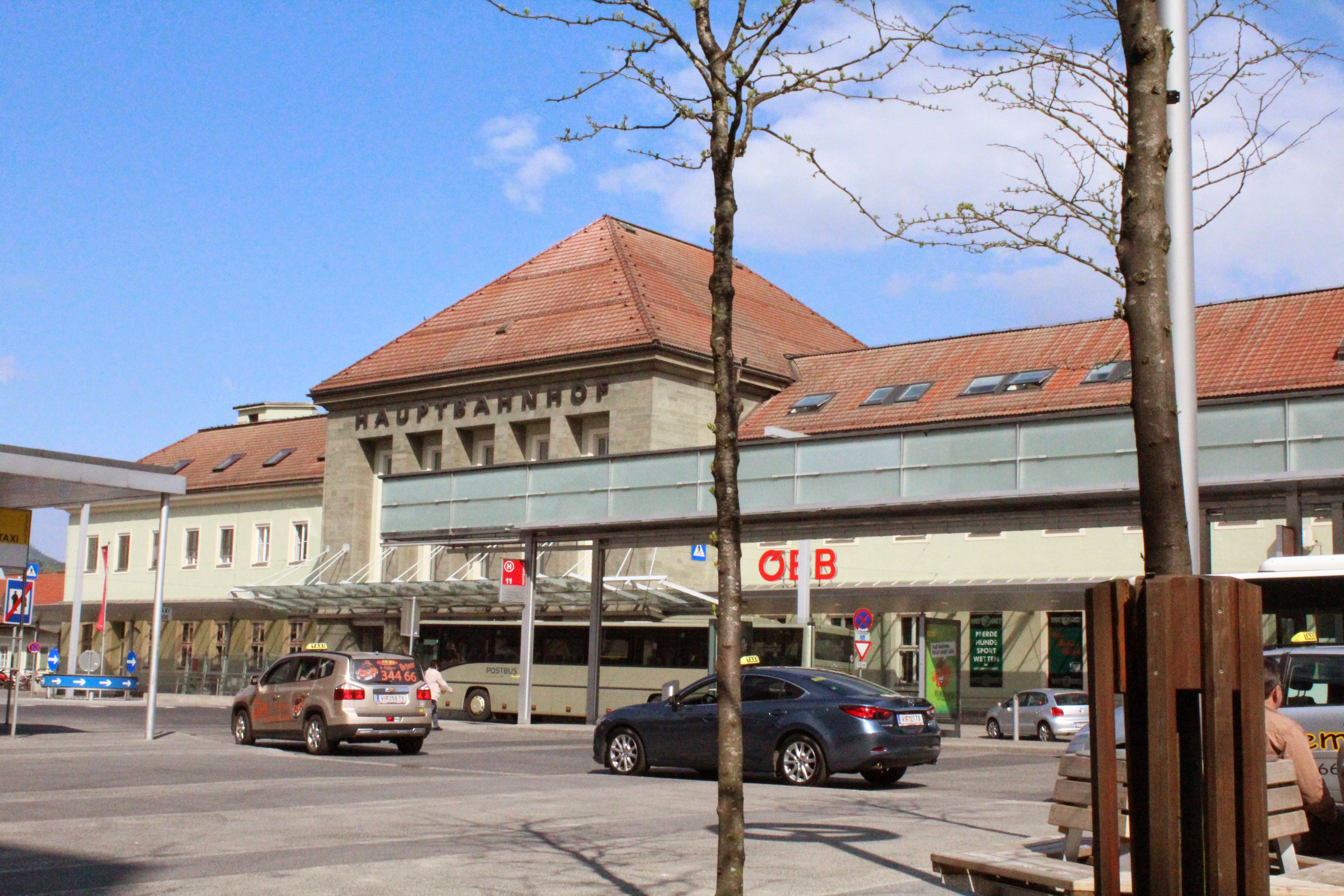 Villach, Austria